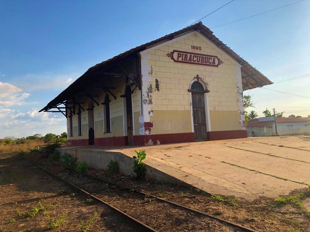 Piracuruca in 1923.